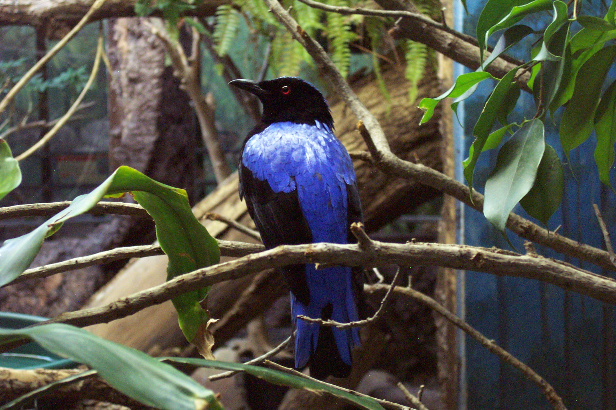 Species Irena puella. Taken at the Dallas Zoo, June 19 2006 by uploader